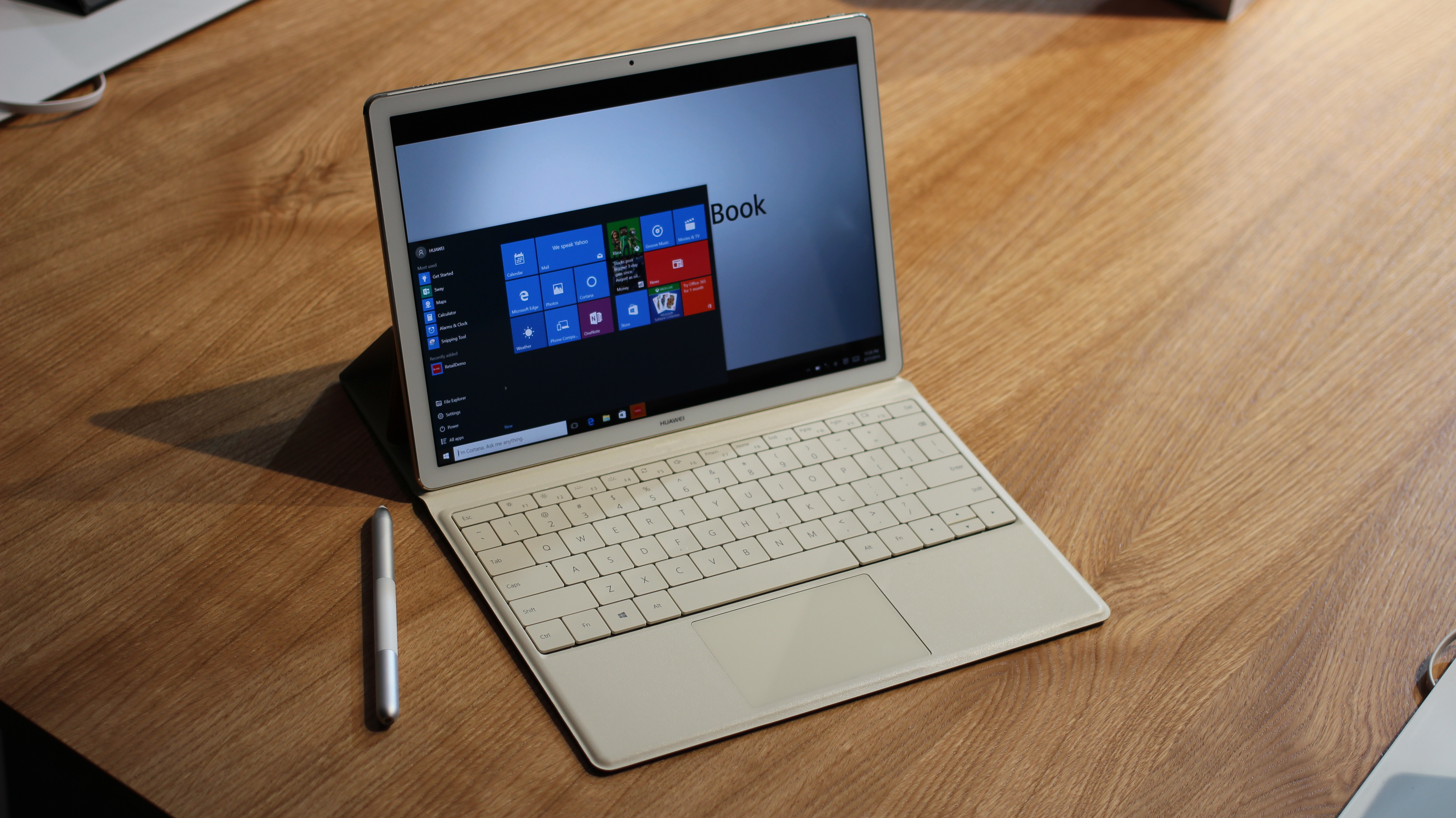 Huawei Matebook 2-in-1 tablet with Windows 10